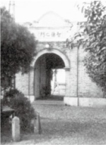 The gate of wisdom and morality.